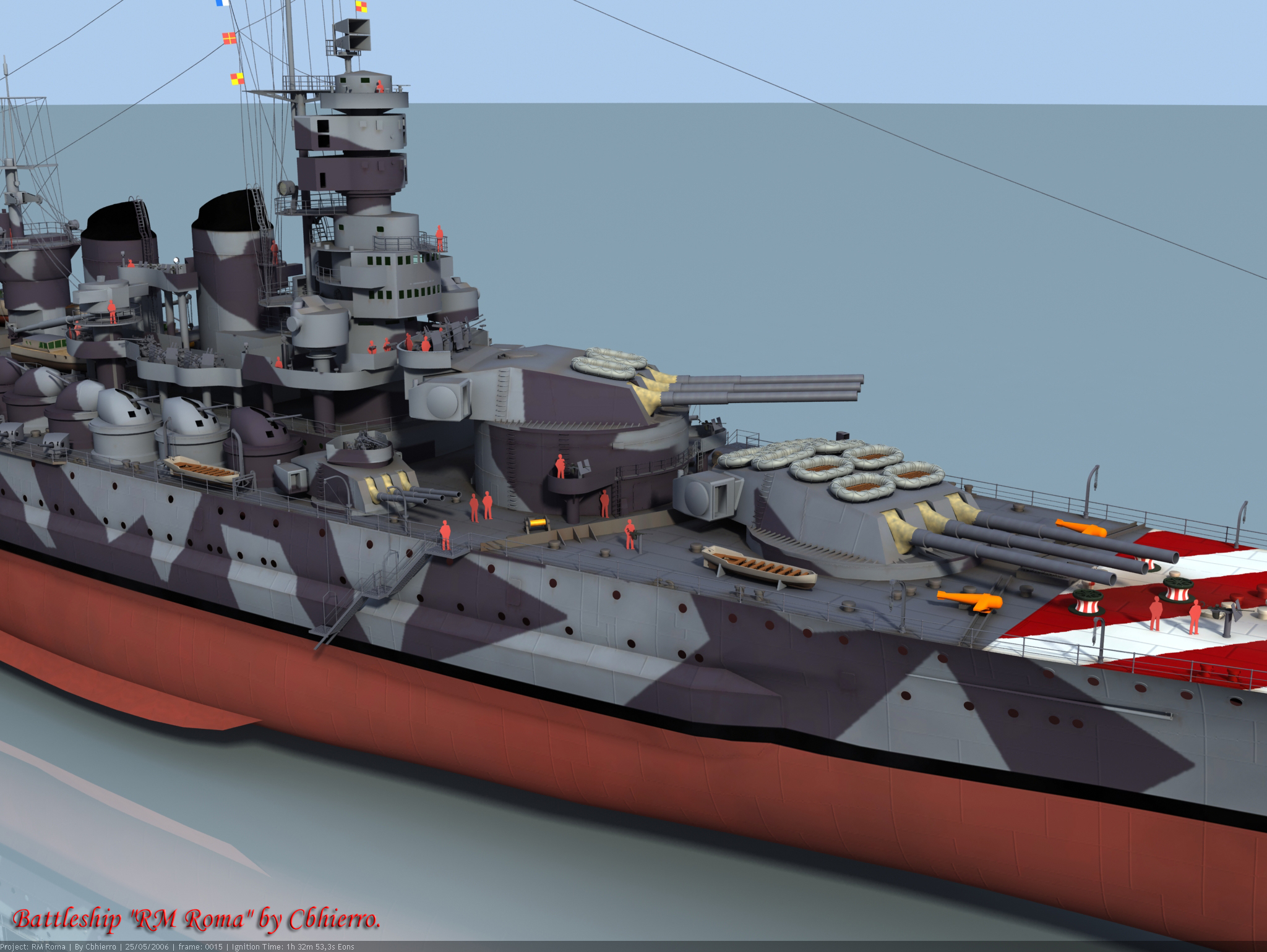 a 3D rendering of the different views of the Regia Marina Roma battleship